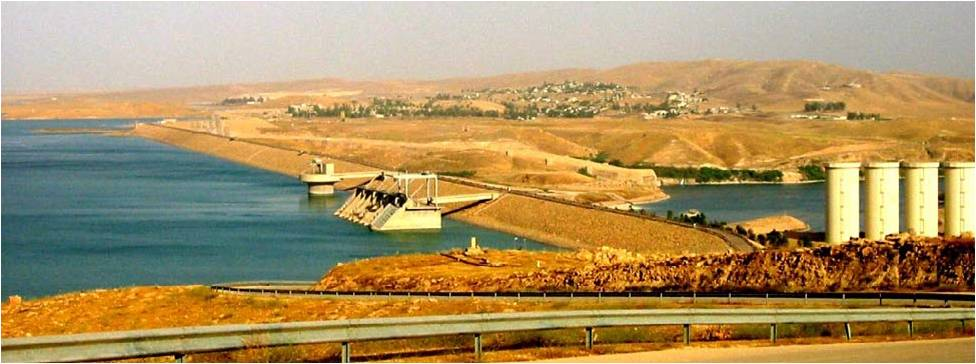 The Mosul Dam in Iraq.